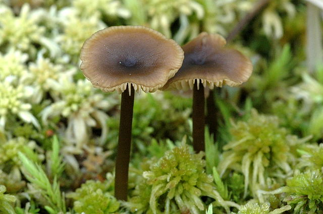 Maybe Tephrocybe palustris from Commanster, Belgium. The determination of the species shown in this picture has been verified.